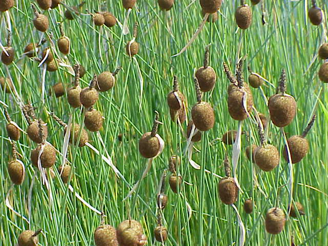 Species: Typha minima Family: Typhaceae Image No. 3